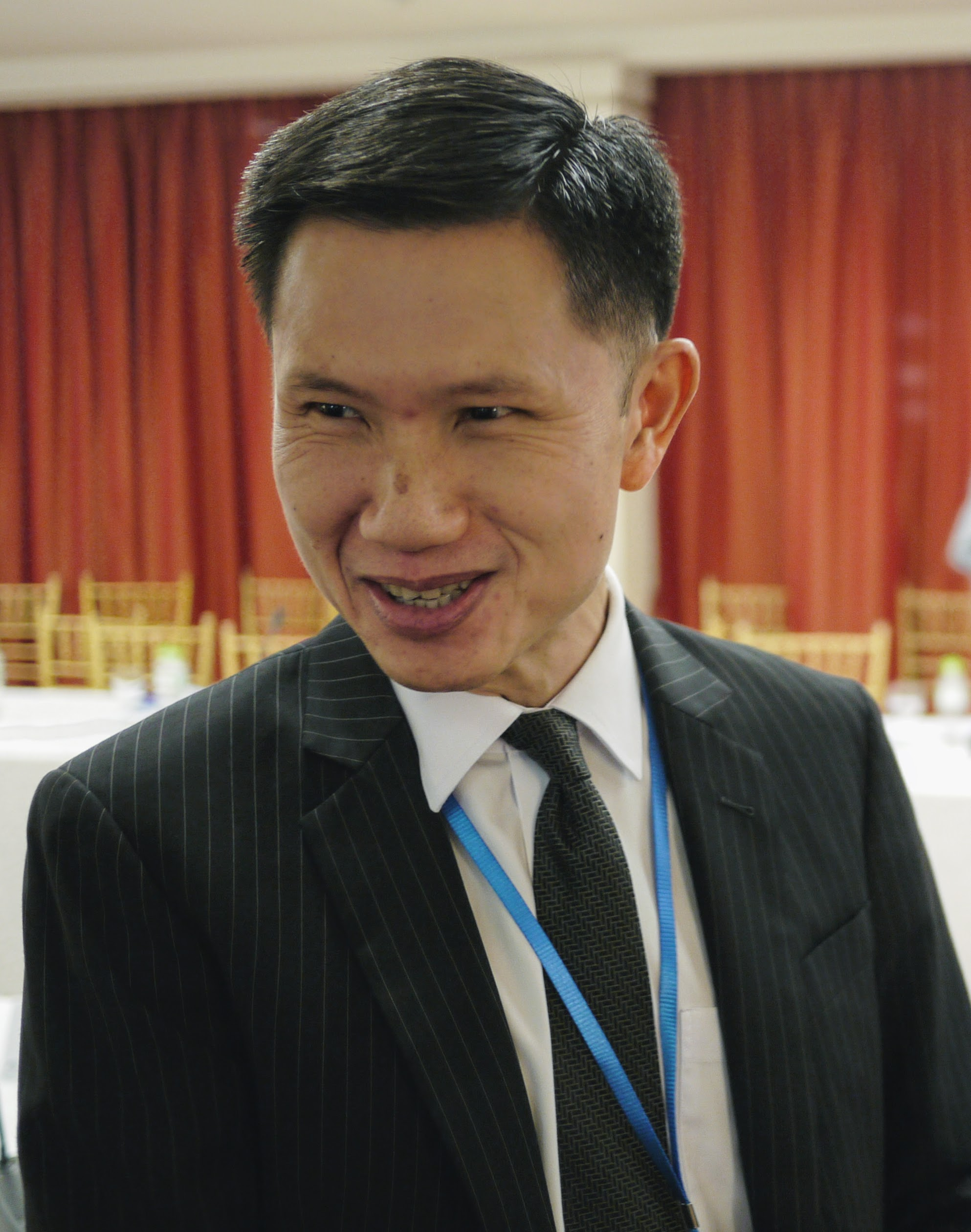 Dr Thitinan Pongsudhirak at ASEAN conference organized by the Cambodian Center for Cooperation and Peace in Phnom Penh on 27 September 2007. Dr Thitinan Pongsudhirak is Director of the Institute of Security and International Studies (ISIS) and Associate Professor of International Political Economy at the Faculty of Political Science, Chulalongkorn University.